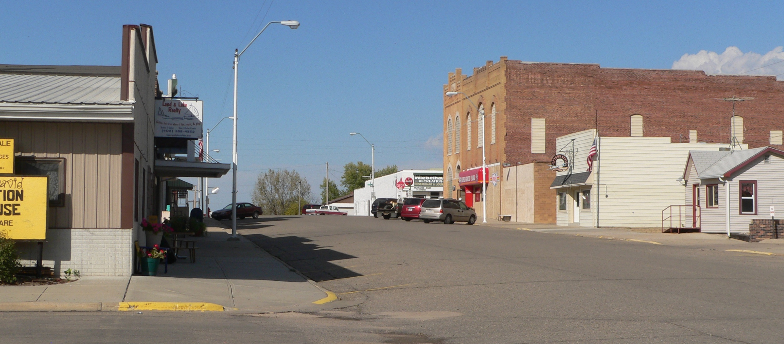 Downtown Crofton, Nebraska: 2nd Street, looking north from about Kansas Street.